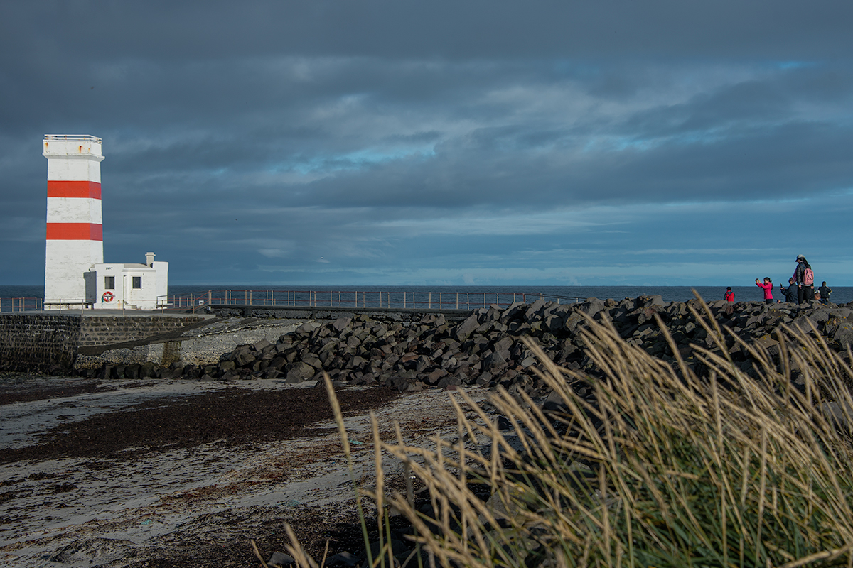 A photo of the old Lighthouse in Garður Icalnd